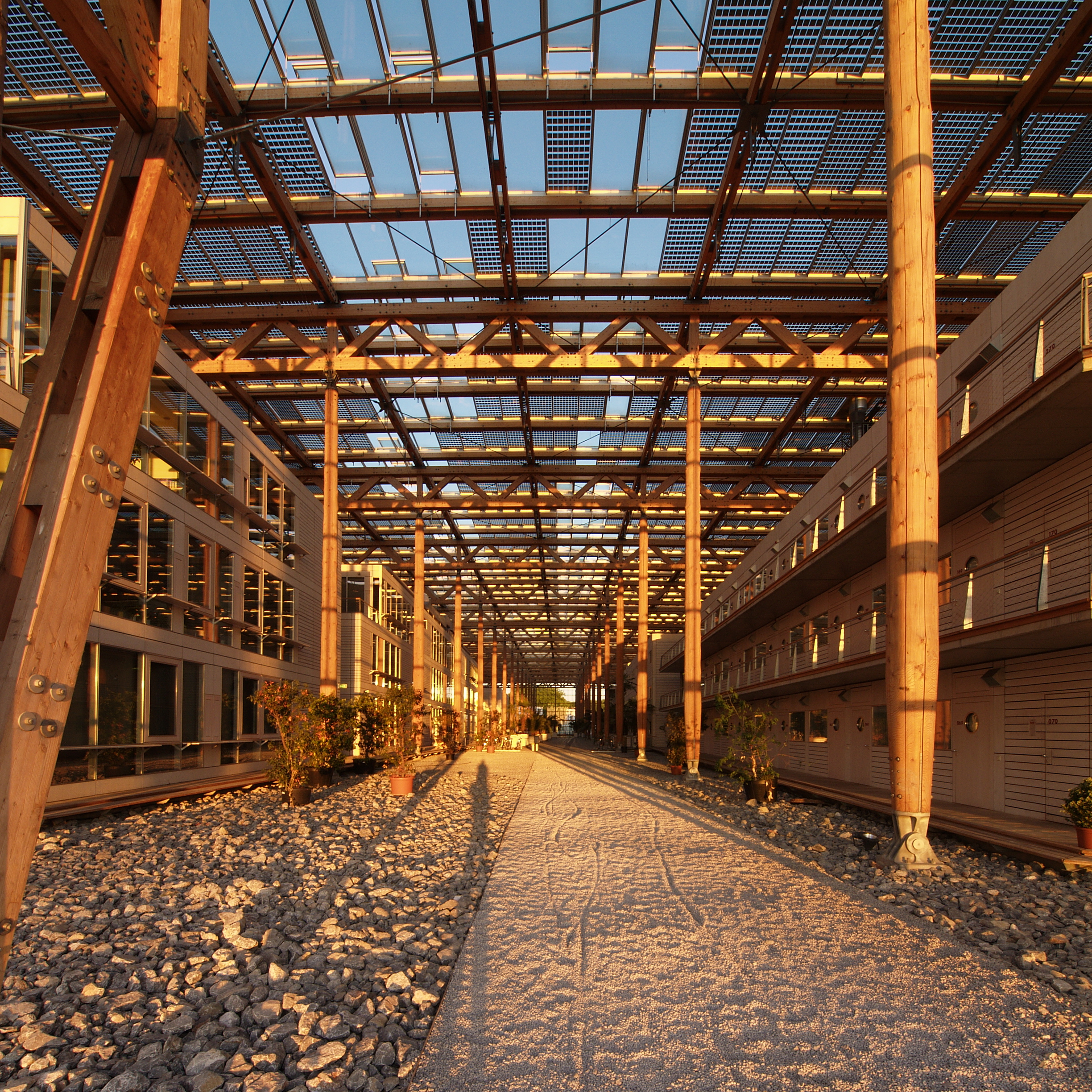 Akademie Mont-Cenis in Herne, Germany, a glass covered building on wooden pillars with buildings for education, living, meeting halls, and a library inside. More than a half of the glass panes on top and south and west side have solar cells for producing electric energy.